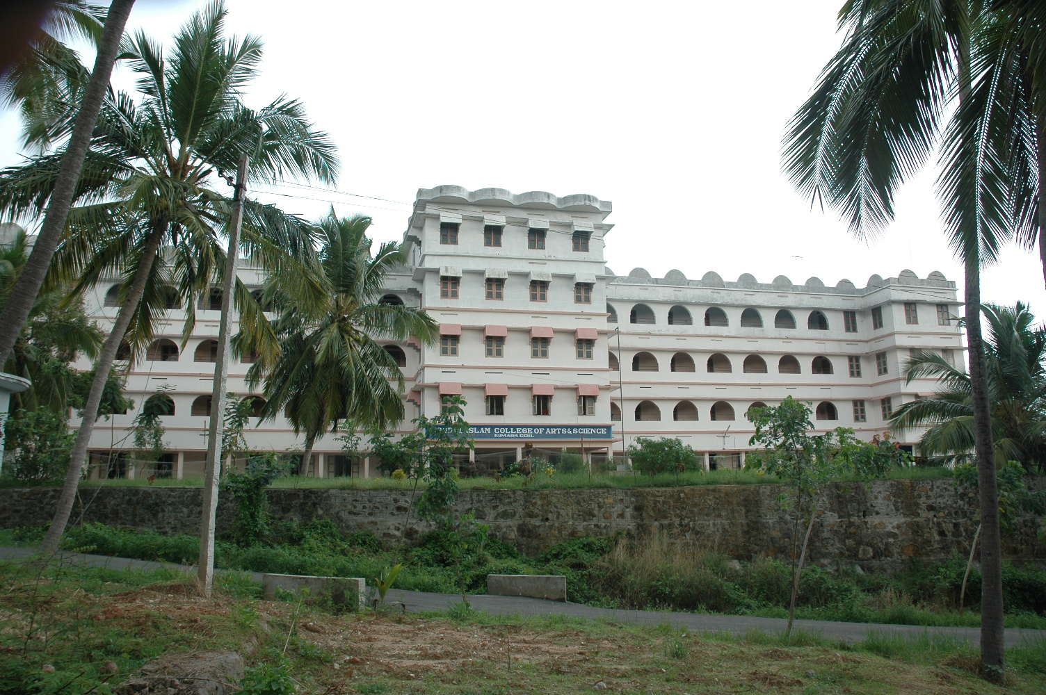 Noorul Islam College of Arts and Science, Kumaracoil, Thuckalay, INDIA